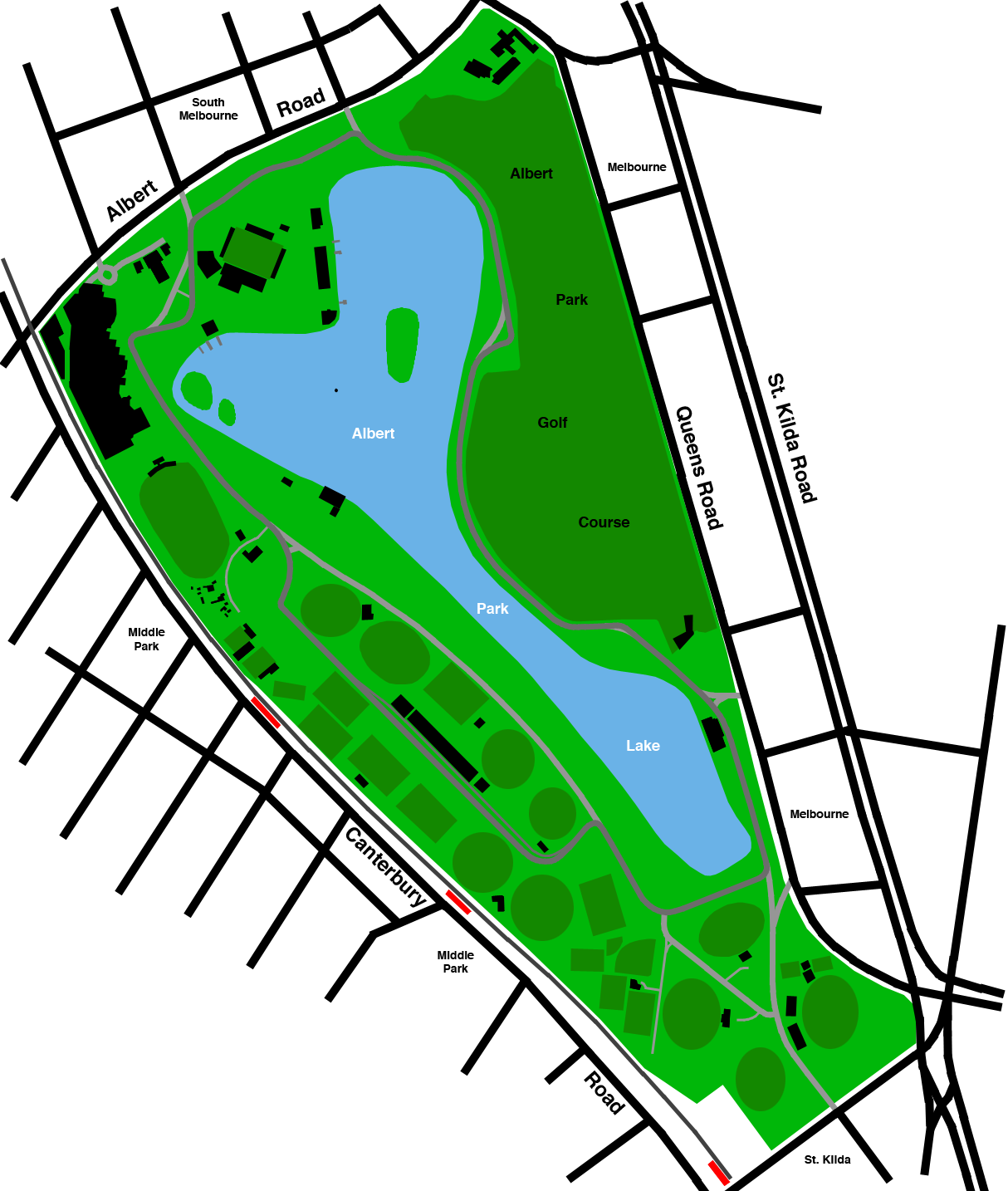 A map of Albert Park and Lake. Map made by myself, June 2009.